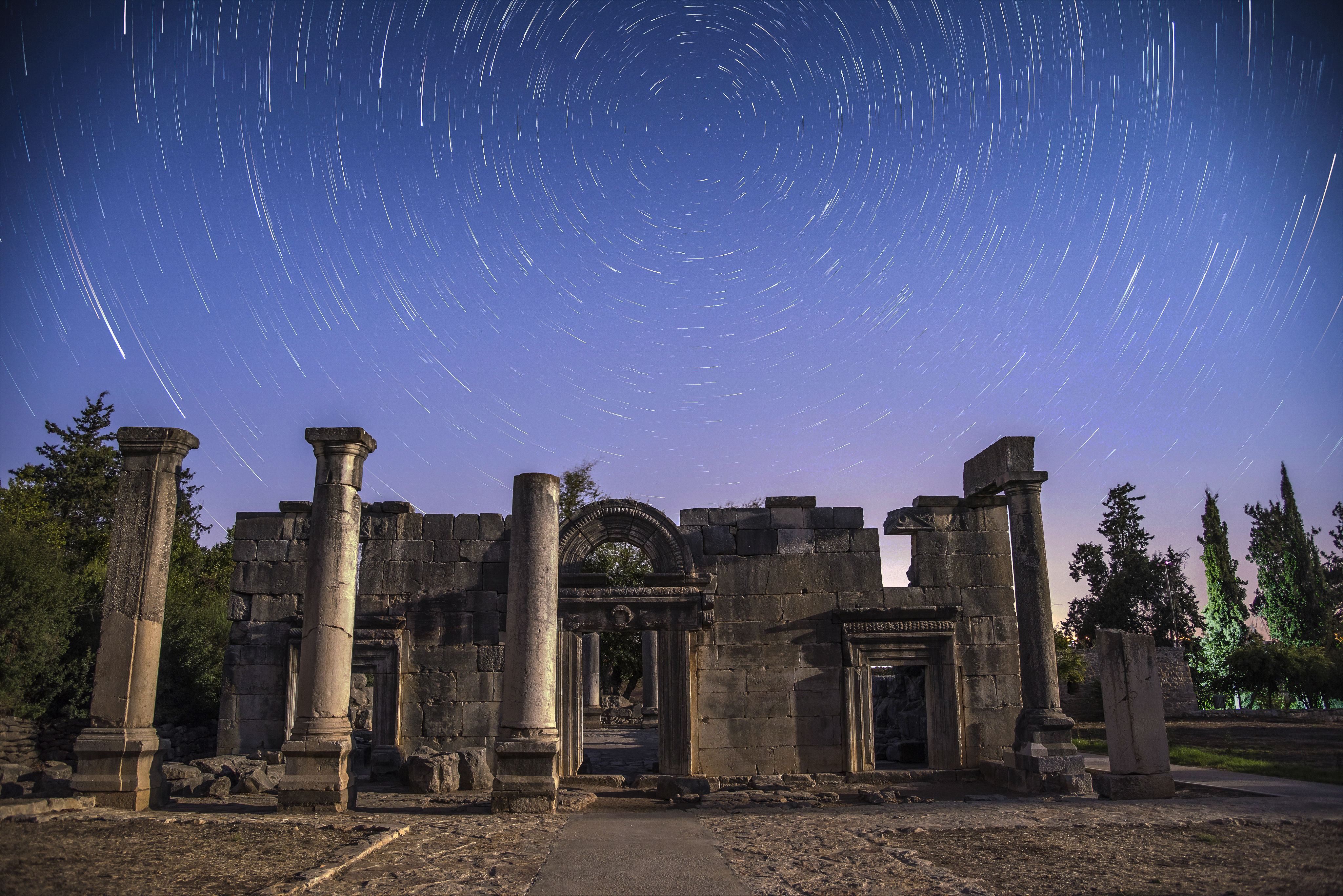 The ancient Synagogue in the National Park Baram